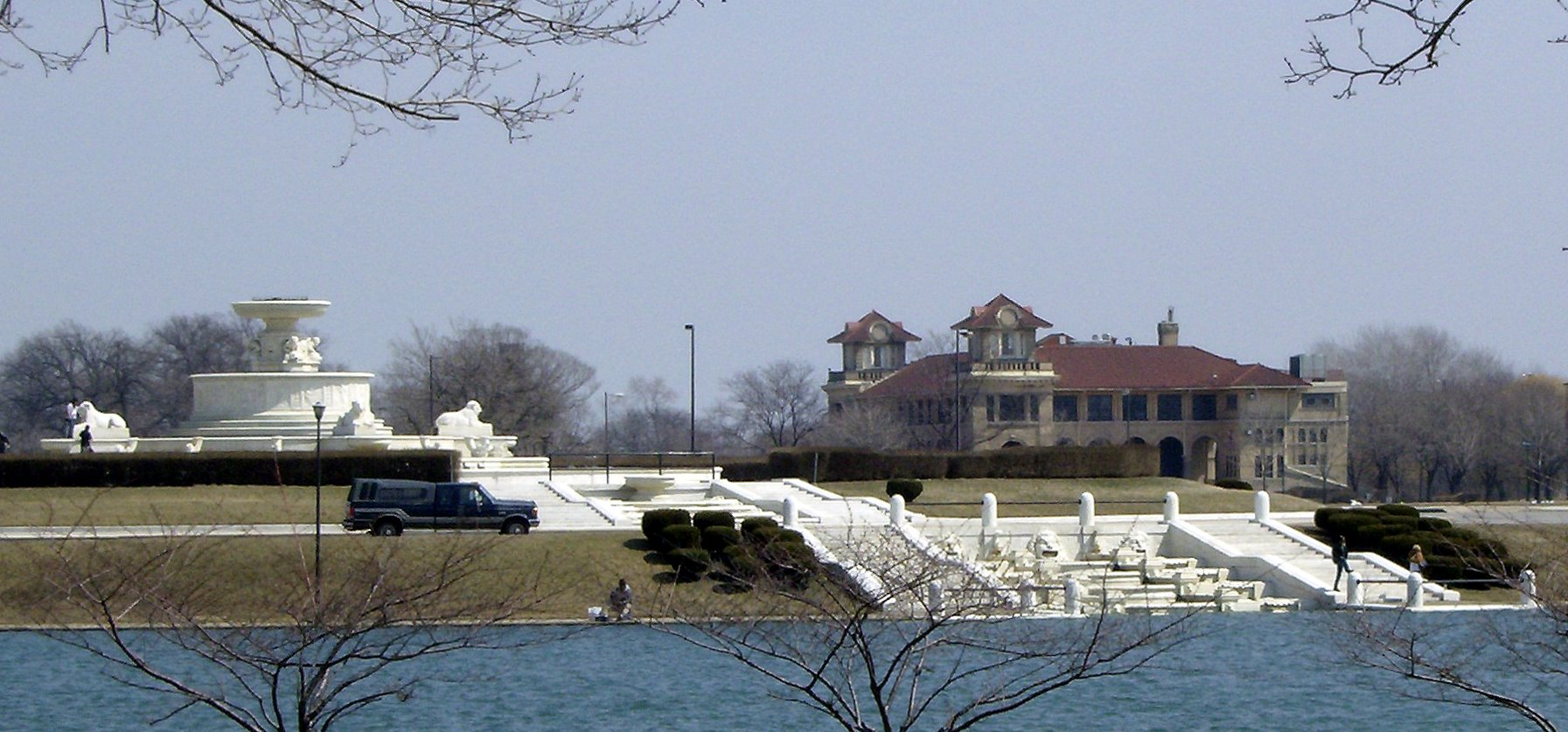 The James Scott Memorial Foundain and Belle Isle Casino in Belle Isle Park, Detroit, Michigan, United States. Photo taken from The Strand.